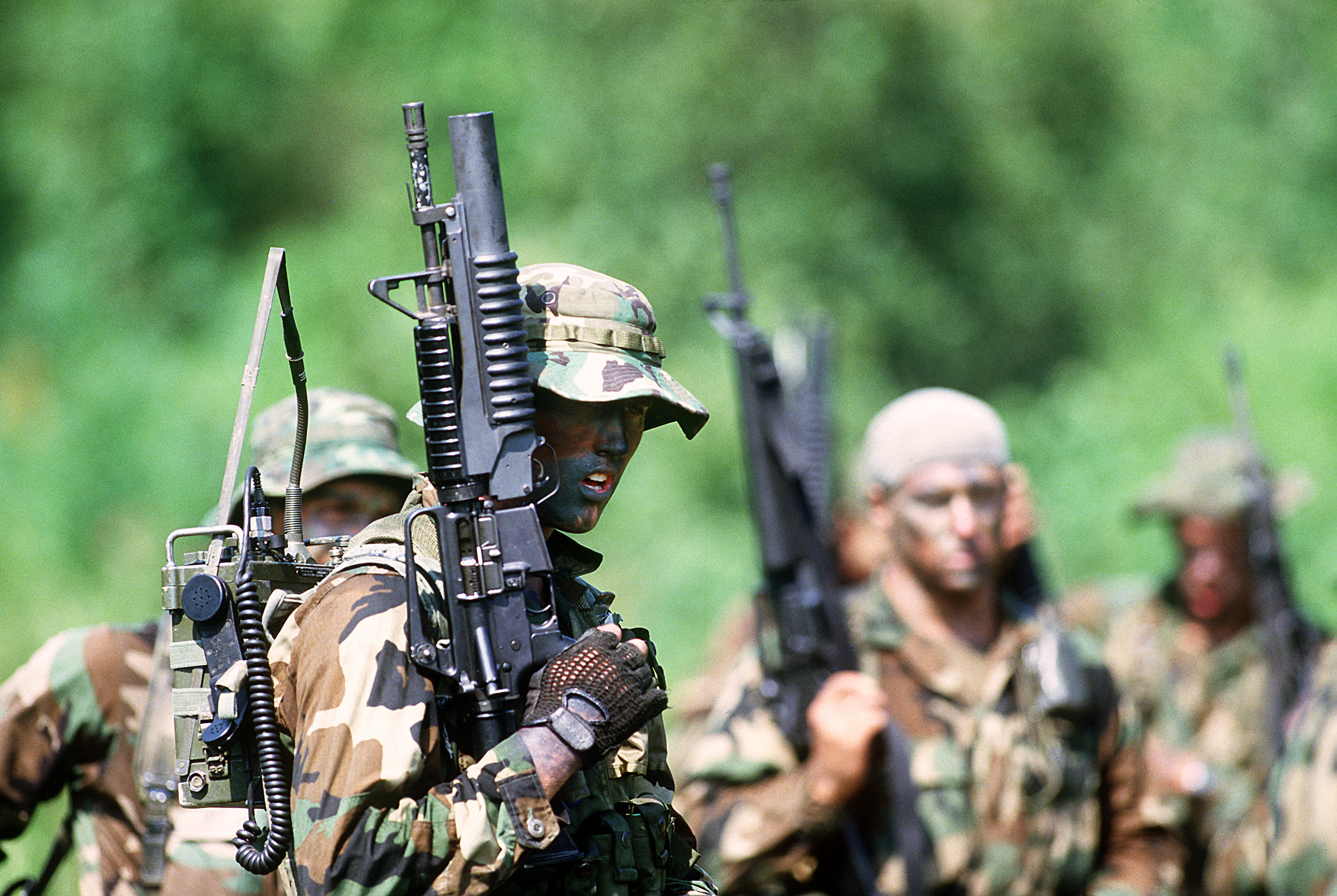 U.S. Navy Sea-Air-Land (SEAL) team members participate in a tactical warfare training. The SEAL in the foreground is carrying a field radio and is armed with a Colt Model 653 carbine equipped with an M203 grenade launcher. Note the open ejection port cover.